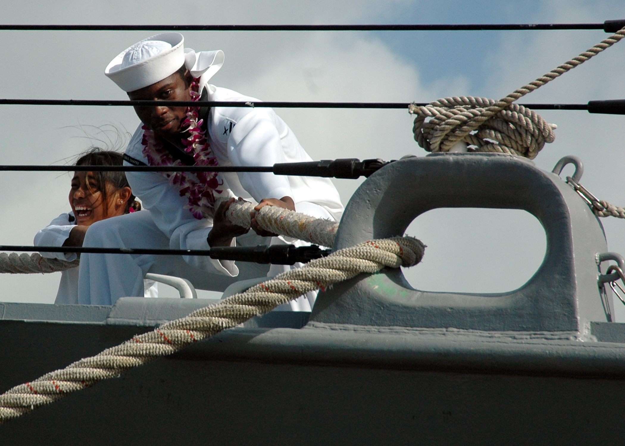 Pearl Harbor, Hawaii (Nov. 9, 2005) - A Sailor assigned to the guided missile destroyer USS Chafee (DDG 90) heaves around on a line as the ship moors pierside on board Naval Station Pearl Harbor, Hawaii. Chafee returned to Pearl Harbor after a regularly scheduled deployment as part of the Nimitz Carrier Strike Group in support of the Global War on Terrorism. U.S. Navy photo by Journalist 3rd Class Ryan C. McGinley (RELEASED)